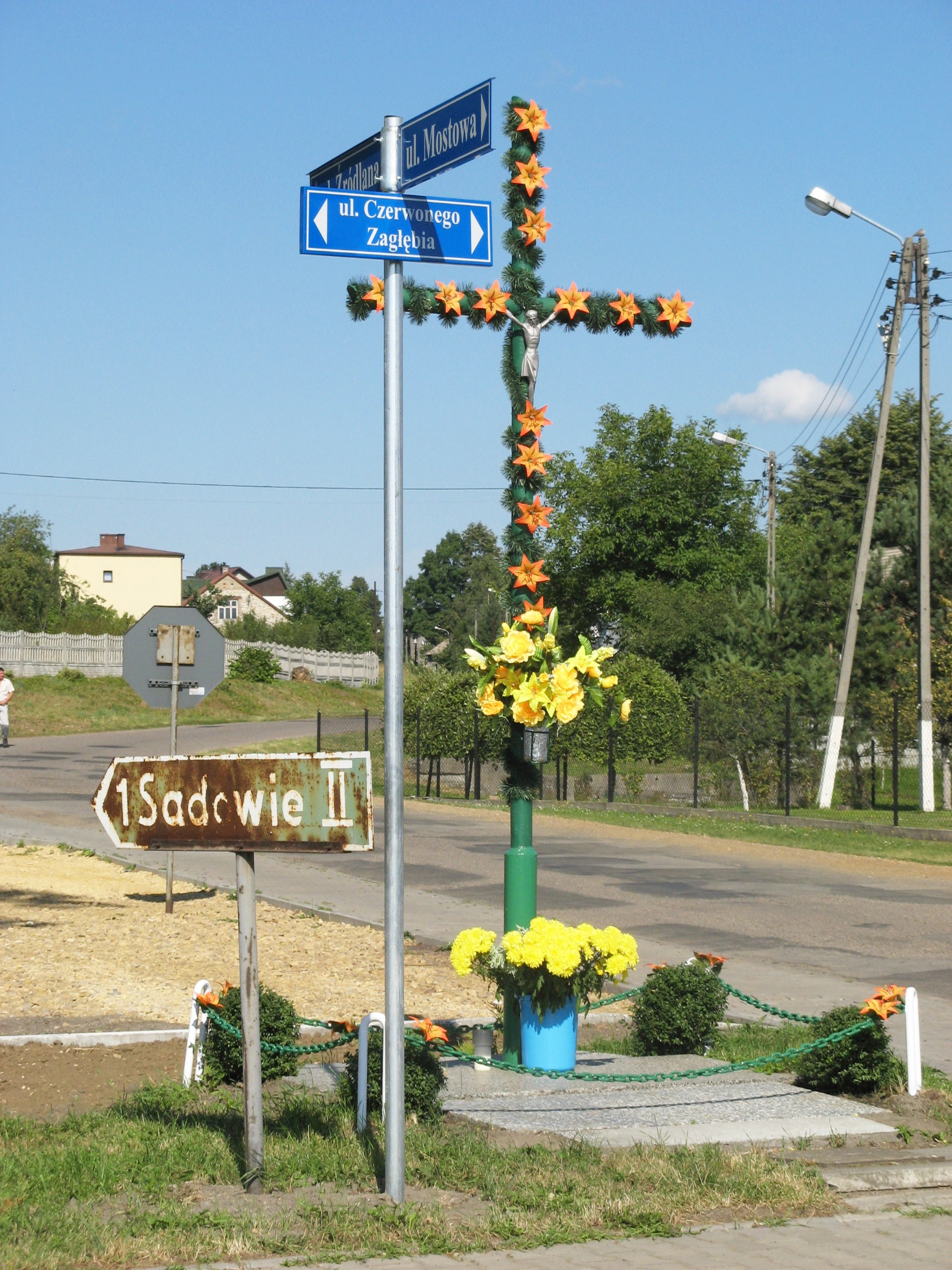 Czerwonego Zagłębia Street